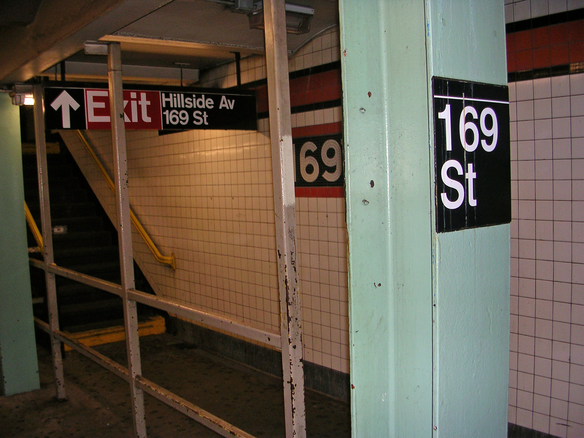 169 Street Subway Station by David Shankbone, January 15, 2007.